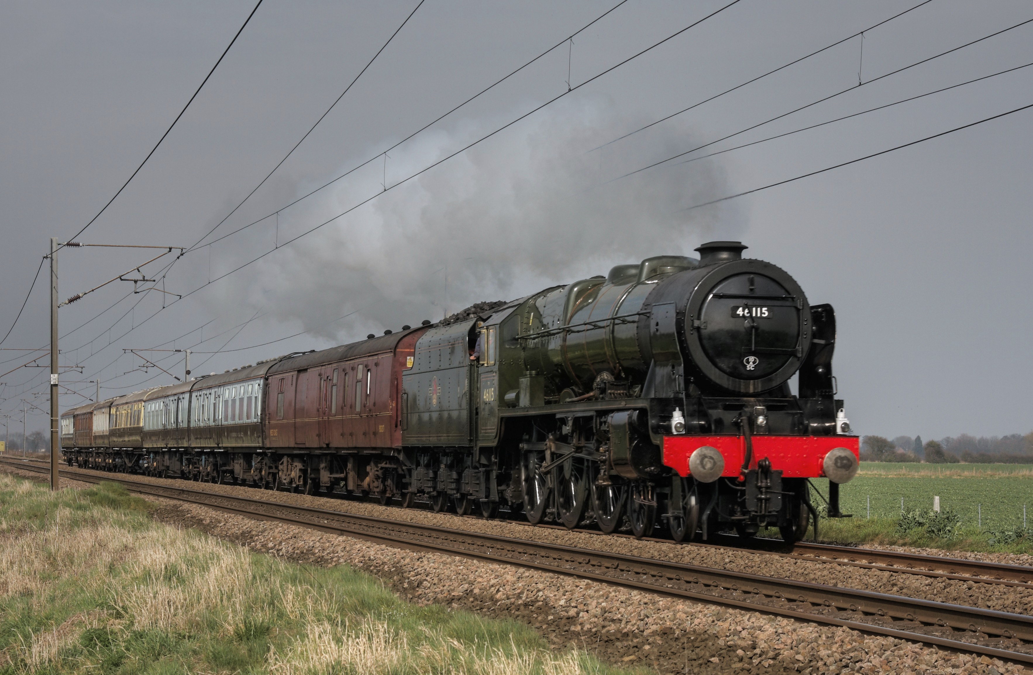 46115 "Scots Guardsman" passes Cromwell Moor working 5Z46 Carnforth - Ely ECS